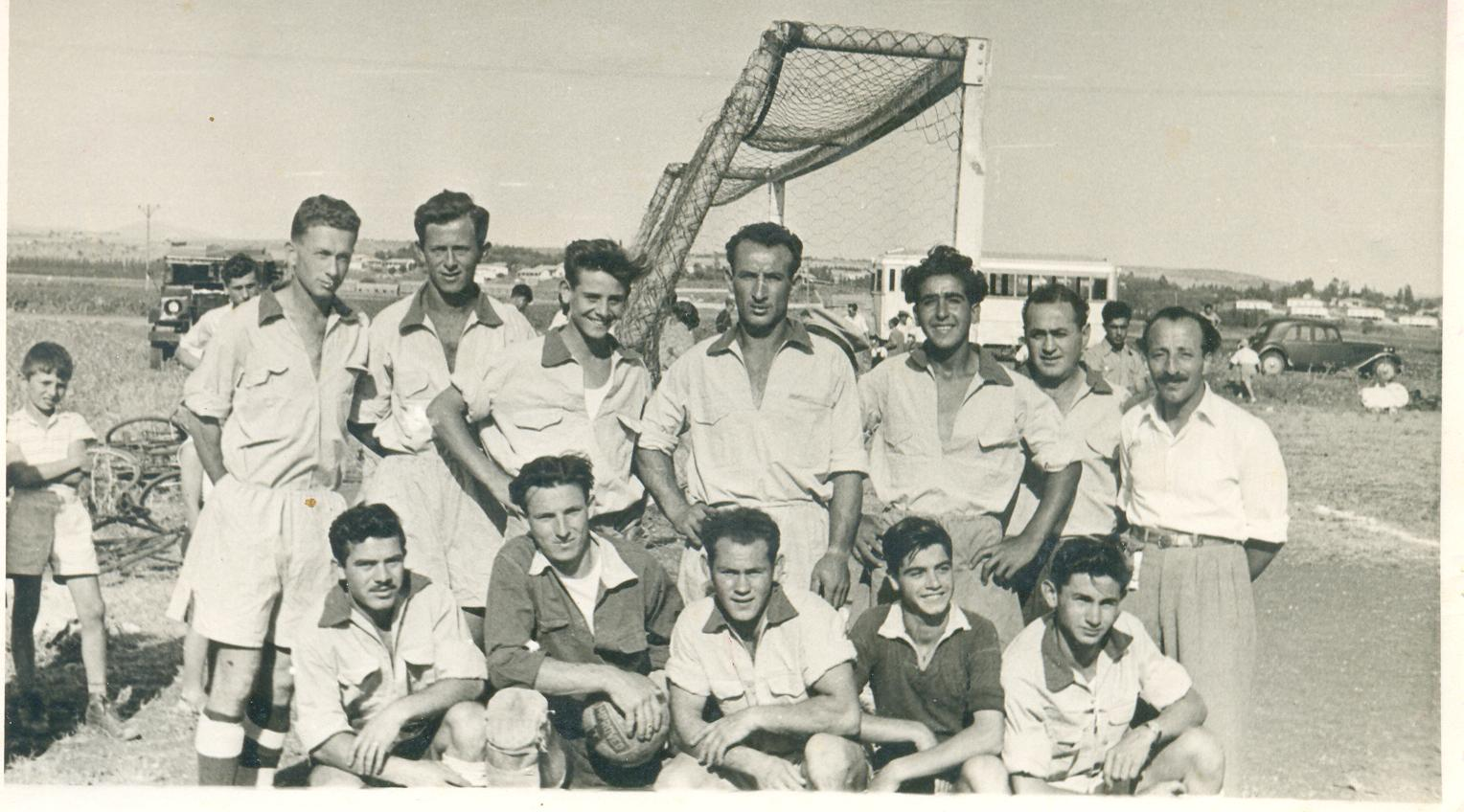 Sports in Israel